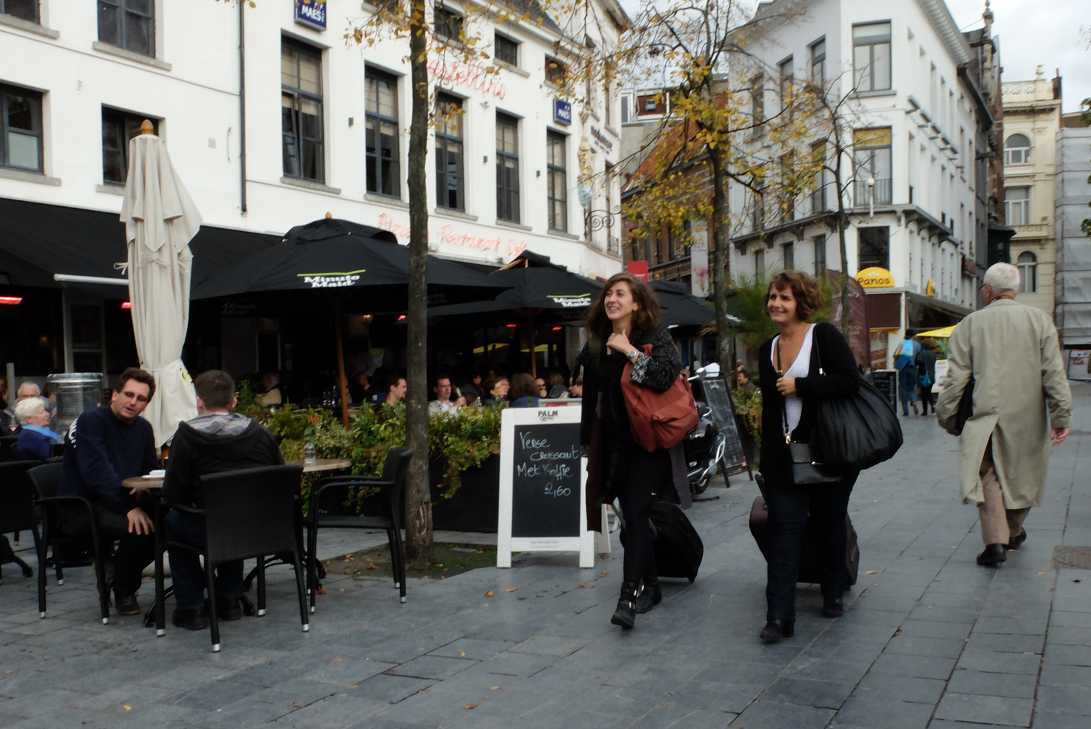 The Groenplaats of Antwerp with outdoor cafes